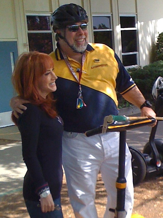 Kathy and Woz